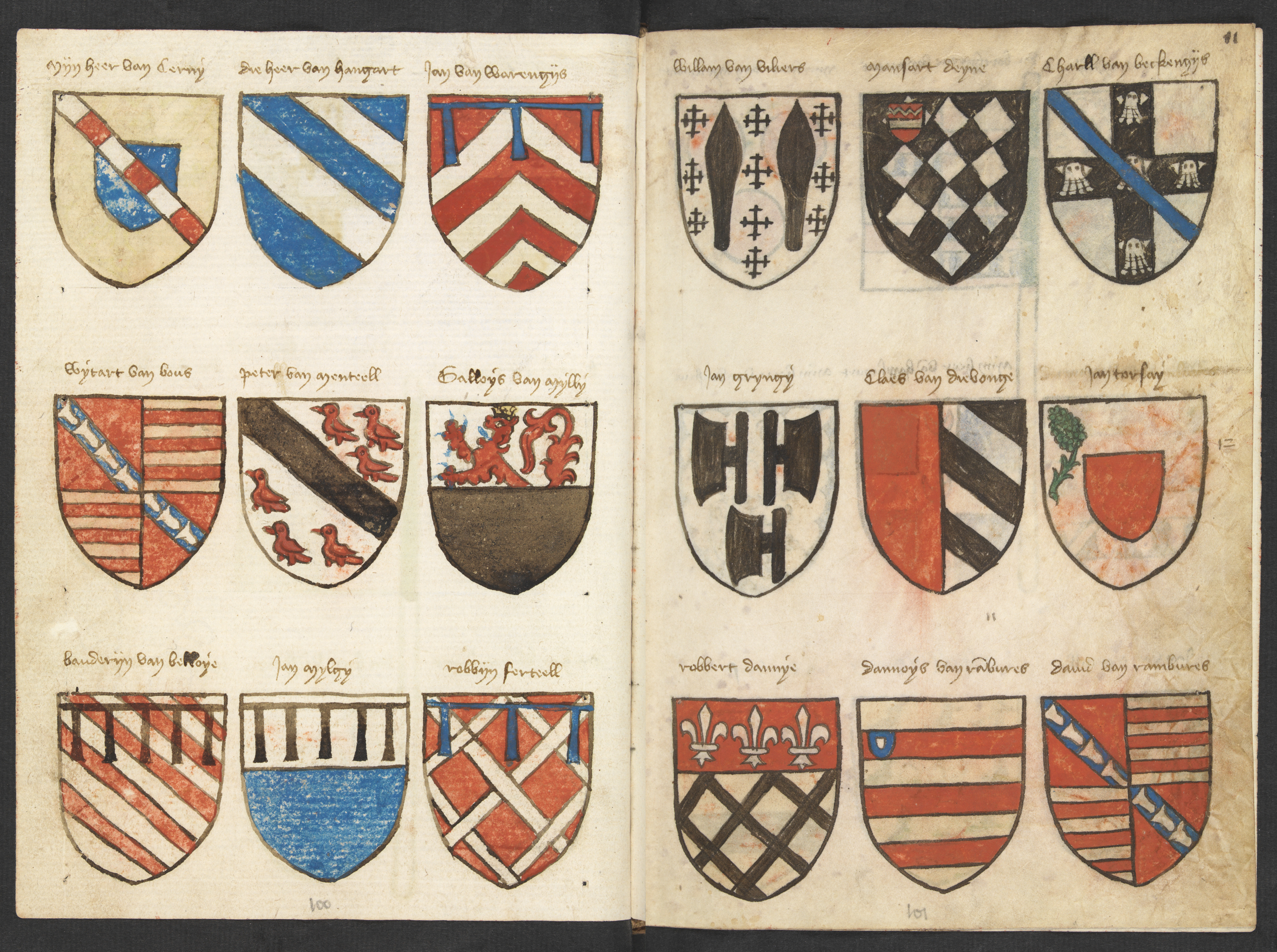 Lefthand side folio 010v; righthand side folio 011r from the Beyeren armorial / Wapenboek Beyeren